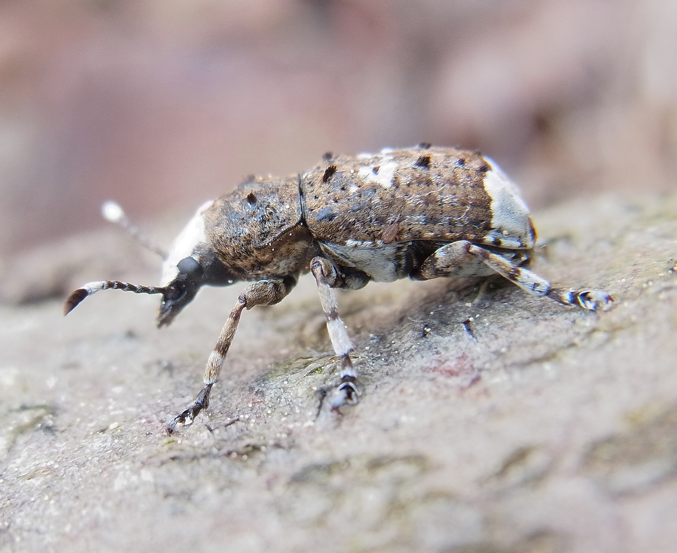 Platystomos albinus with mite from Germany, Schwäbische Alb near Süßen at dead beech, with mite at the side